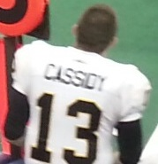 Photograph taken of the Pittsburgh Power playing against the Tampa Bay Storm at the Tampa Times Forum on July 20, 2013.